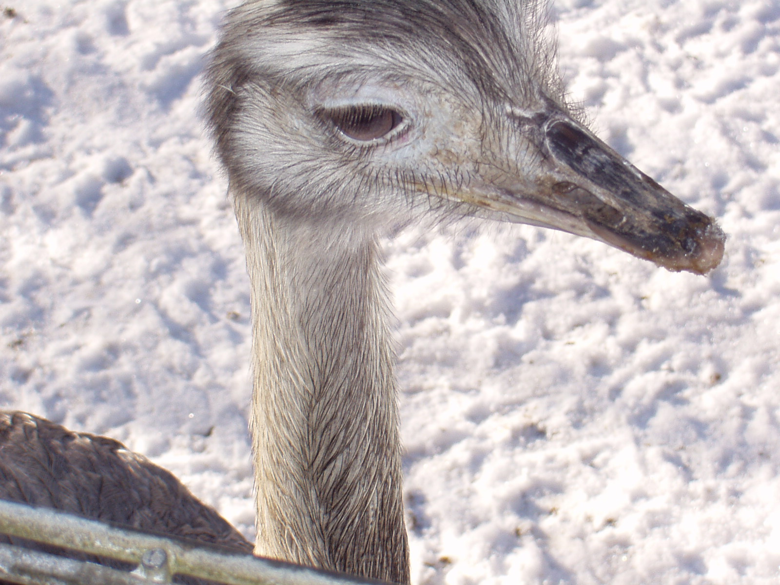 head of an Darwin-Nandu (Pterocnemia pennata)